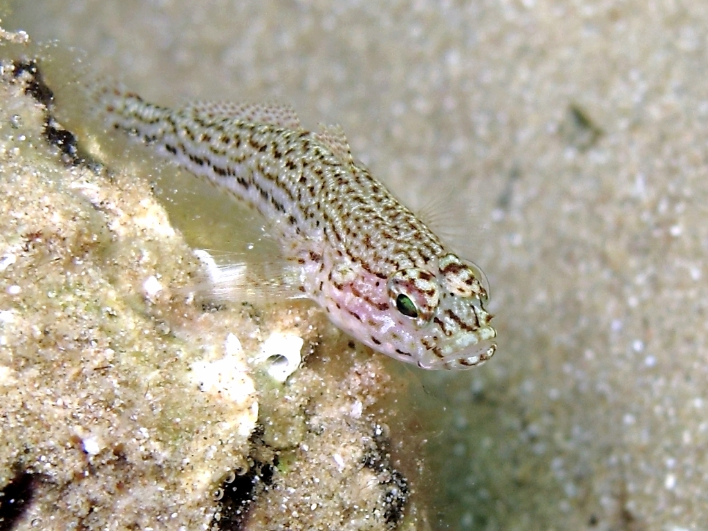 Gobius fallax